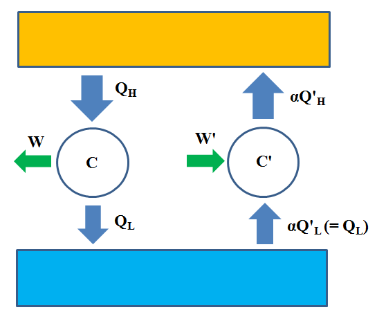 Proof of Carnot's theorem